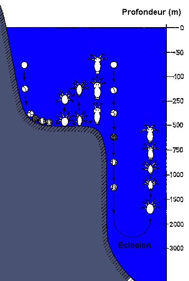 krill hatching drawing Uwe Kils after Marr gfdl-self